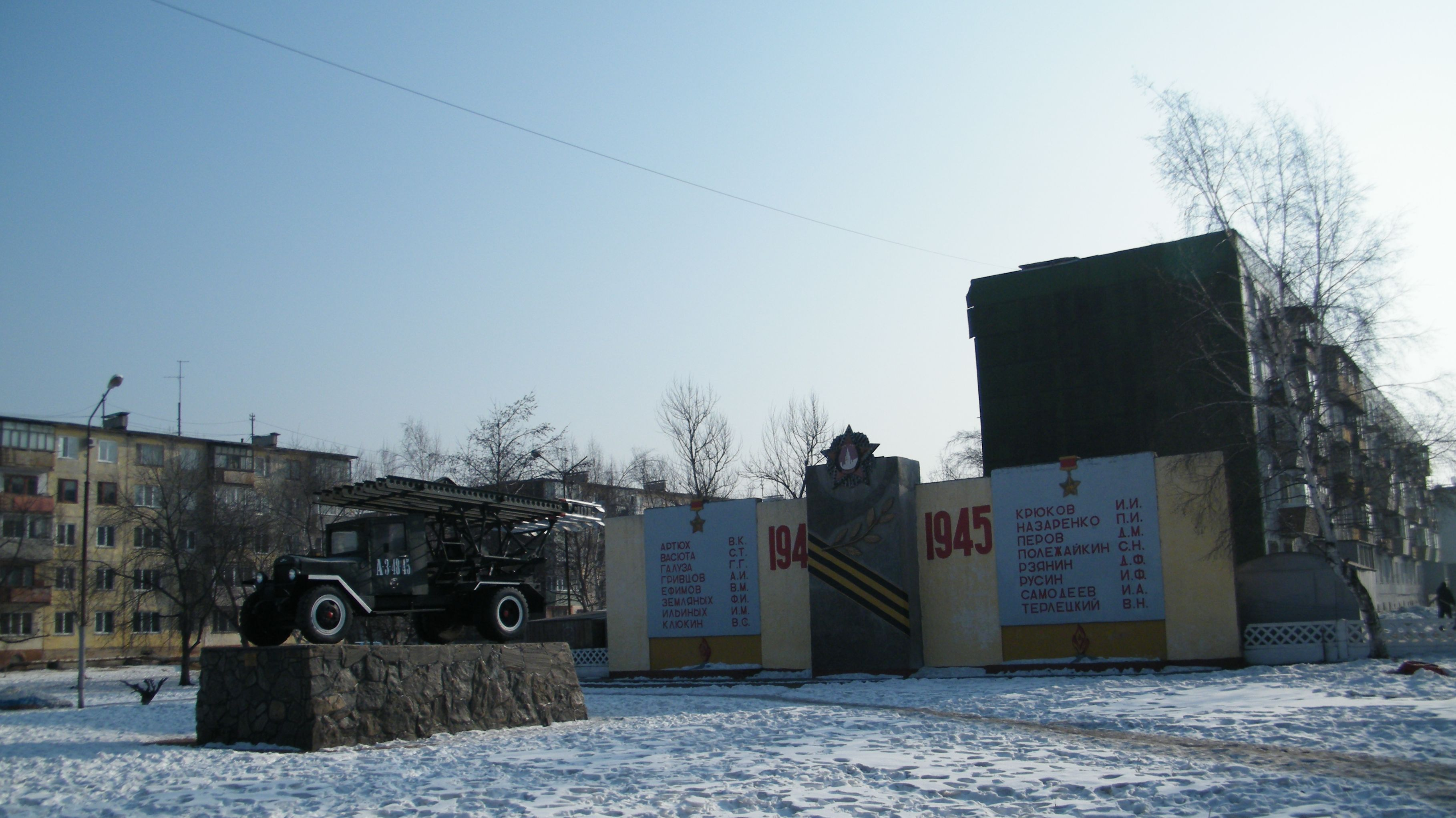 UVVAKU